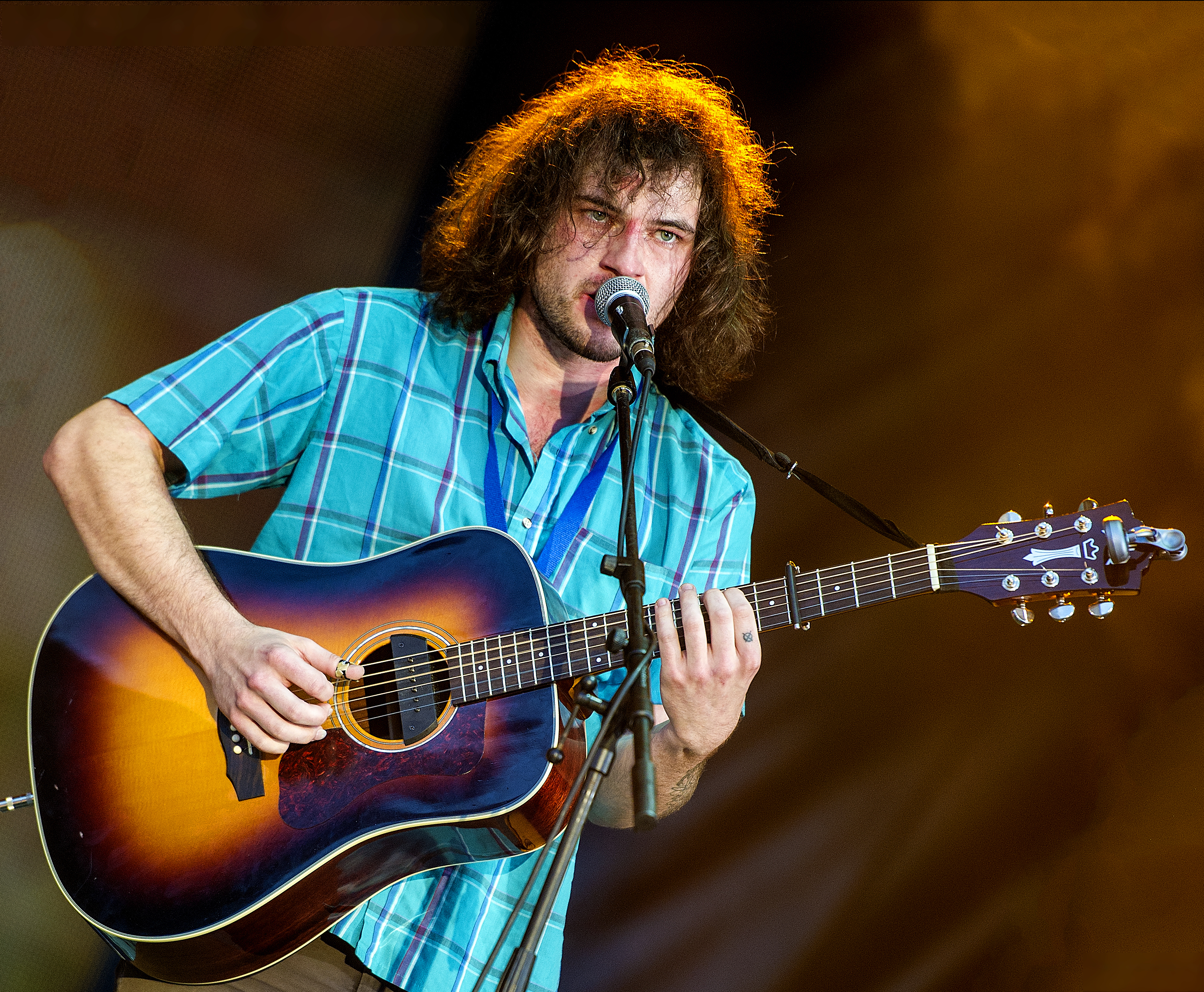 Please, feel free to comment. Much appreciated. Also, take a moment and visit my 500px and Flickr profiles